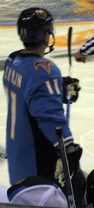 Eric Perrin